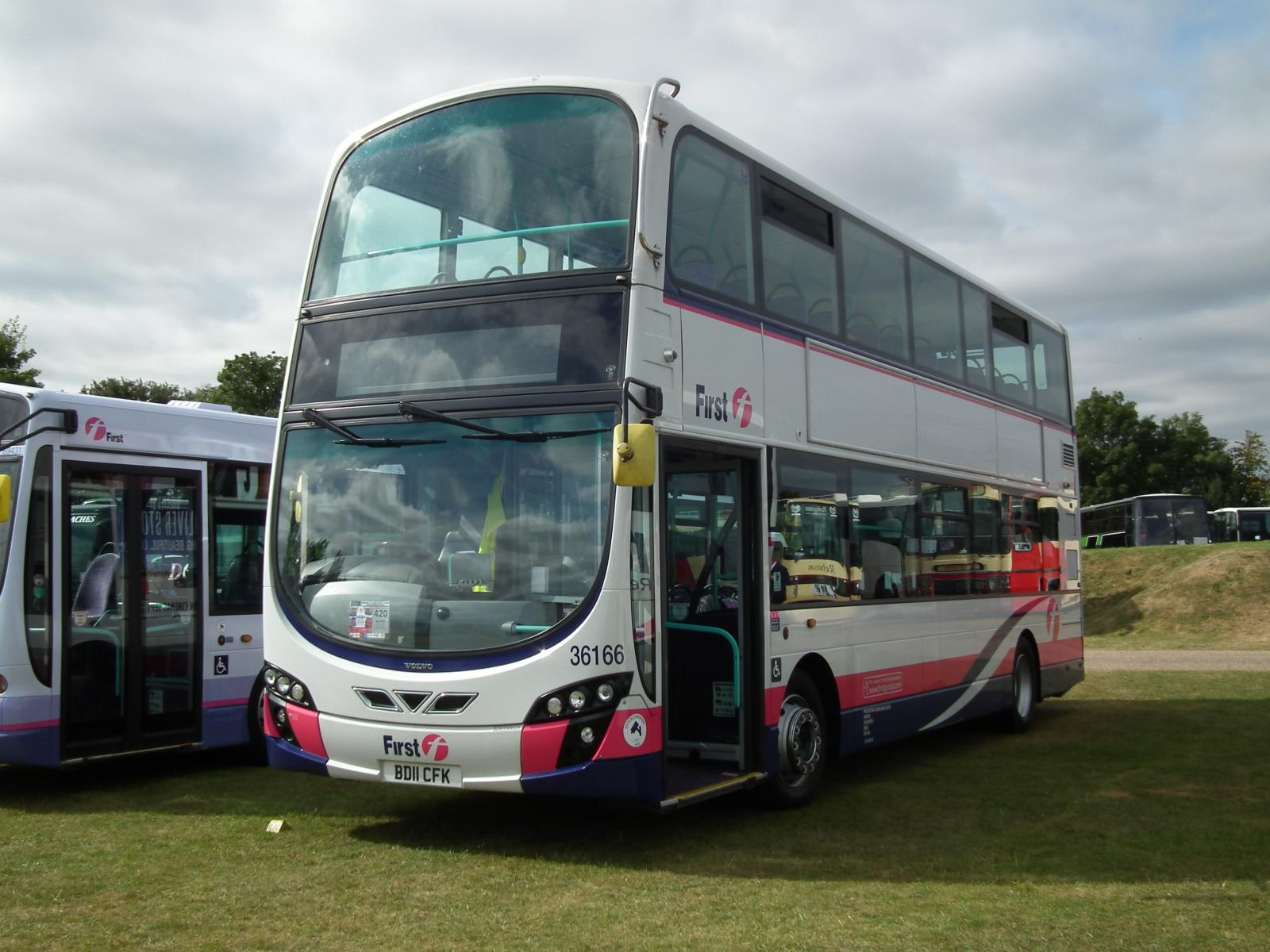 First Somerset & Avon 36166 (BD11 CFK), a Volvo B9TL/Wright Eclipse Gemini, seen at Showbus 2012.